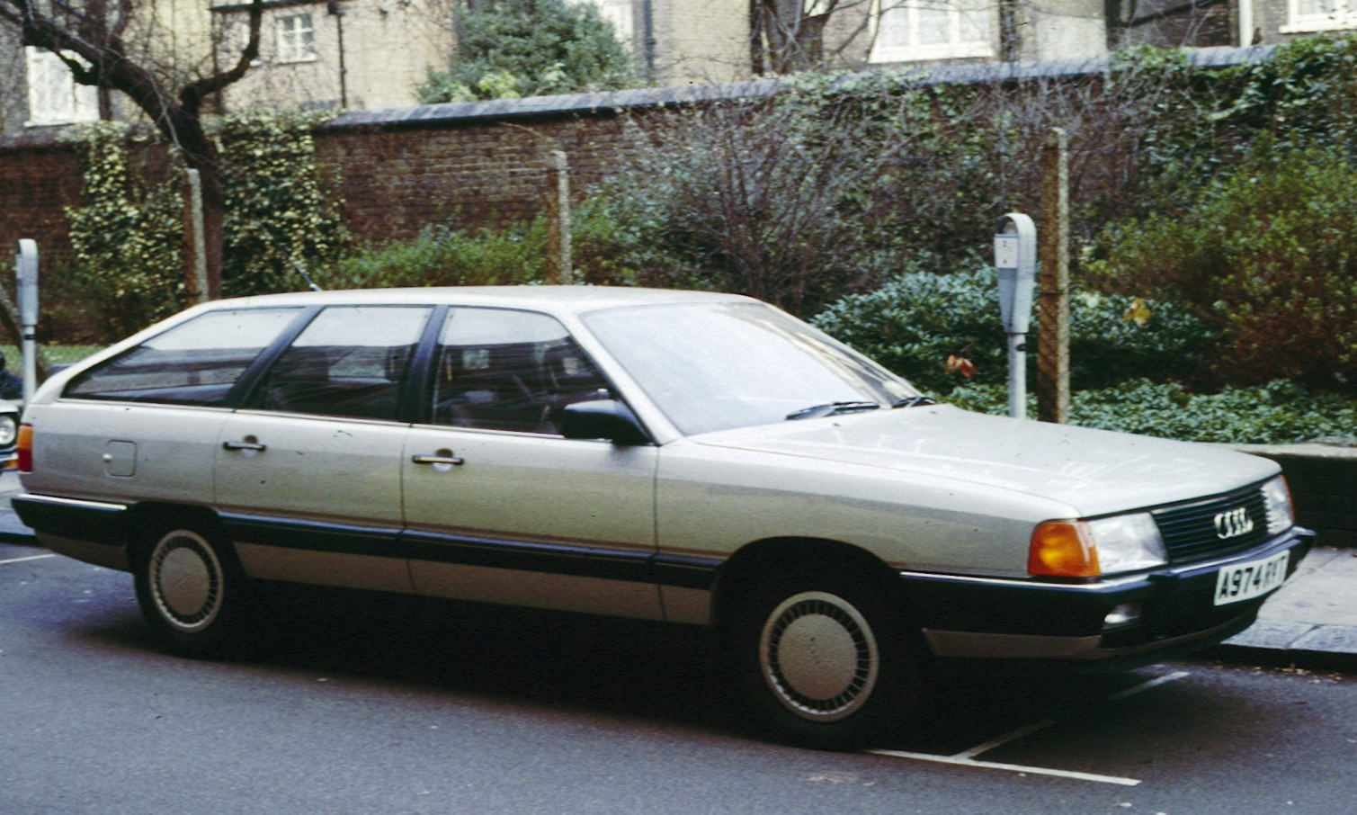 1983 Audi 100 C3 Avant in Cambridge